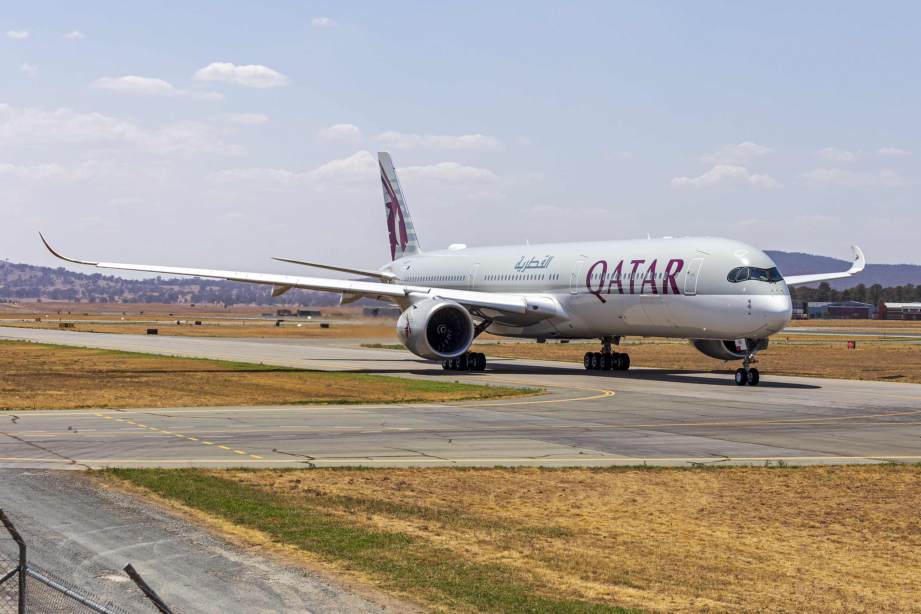 Qatar Airways (A7-ANH) Airbus A350-1041 taxiing at Canberra Airport